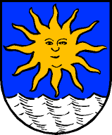 Source: "Fahnen-Gärtner GmbH, Mittersill" This image shows a flag, a coat of arms, a seal or some other official insignia. The use of such symbols is restricted in many countries. These restrictions are independent of the copyright status.